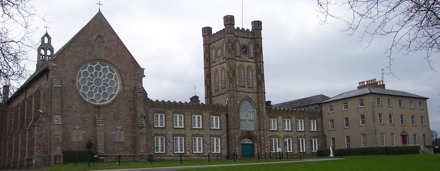 The eastern face of St. Peters College, Wexford, which overlooks the town from its location on Summer Hill.